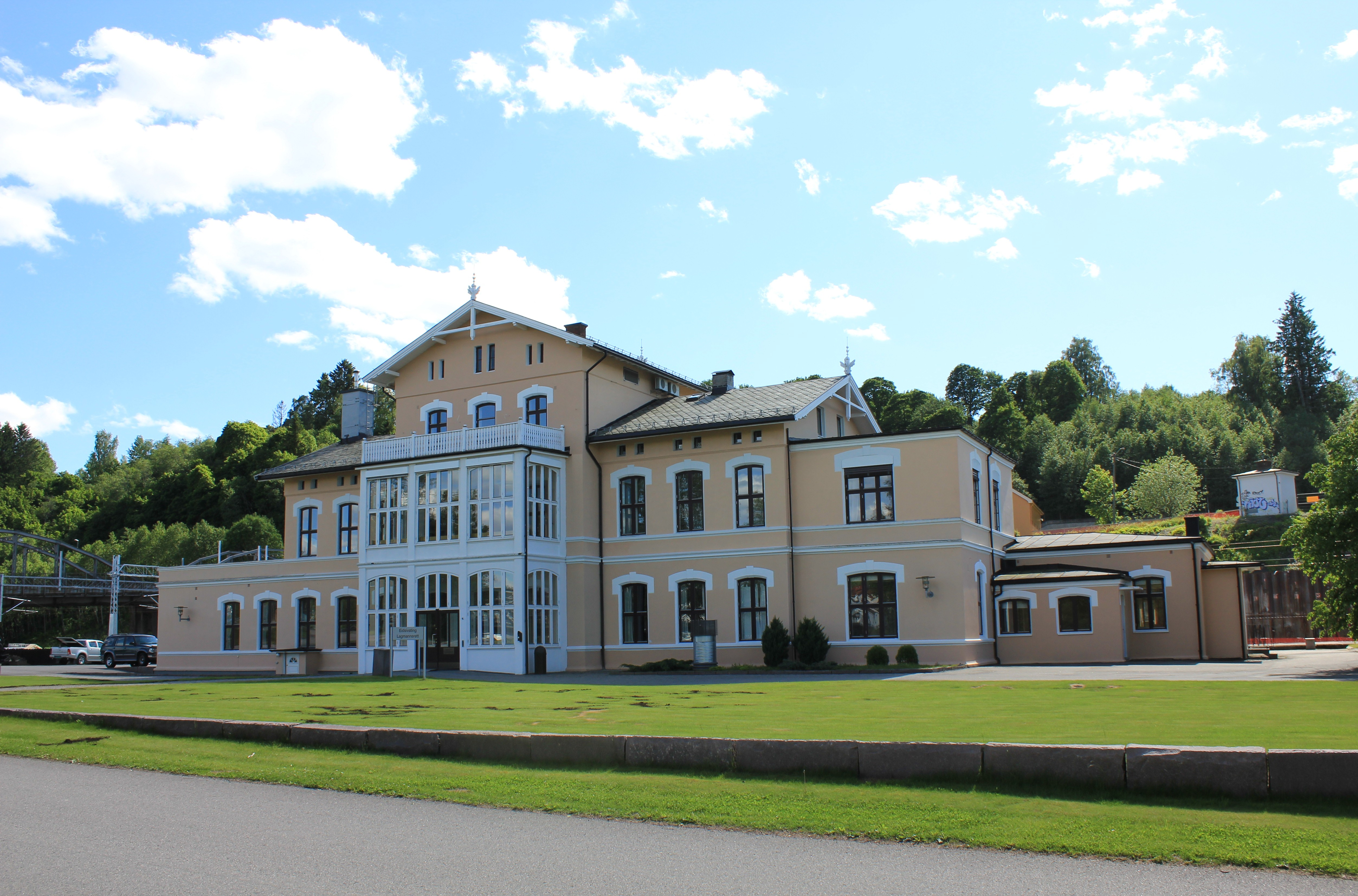 The old railroad station at Eidsvoll, Akershus, Norway. Den gamle stasjonsbygningen ved Eidsvoll jernbanestasjon.